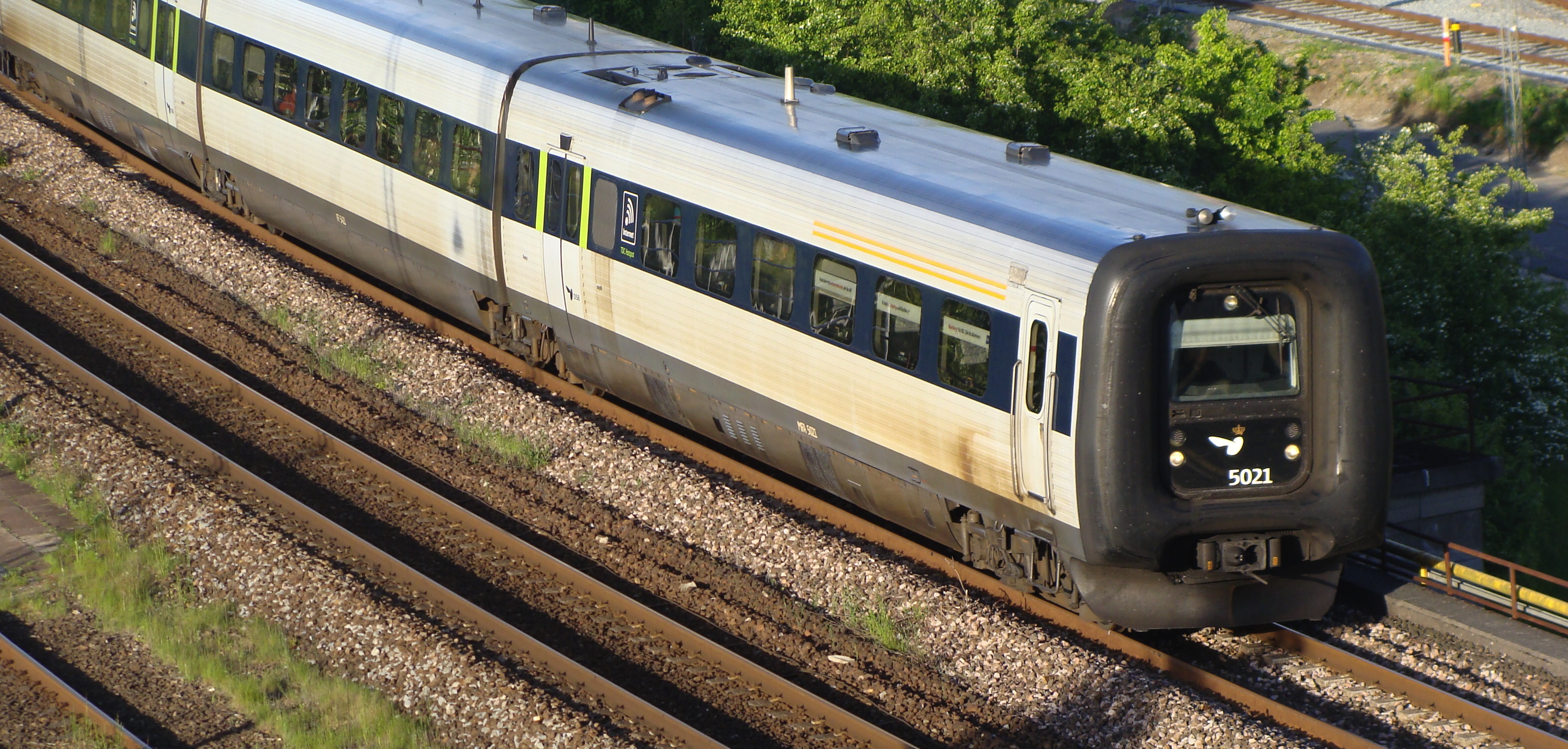 Danish IC3 in Aarhus.